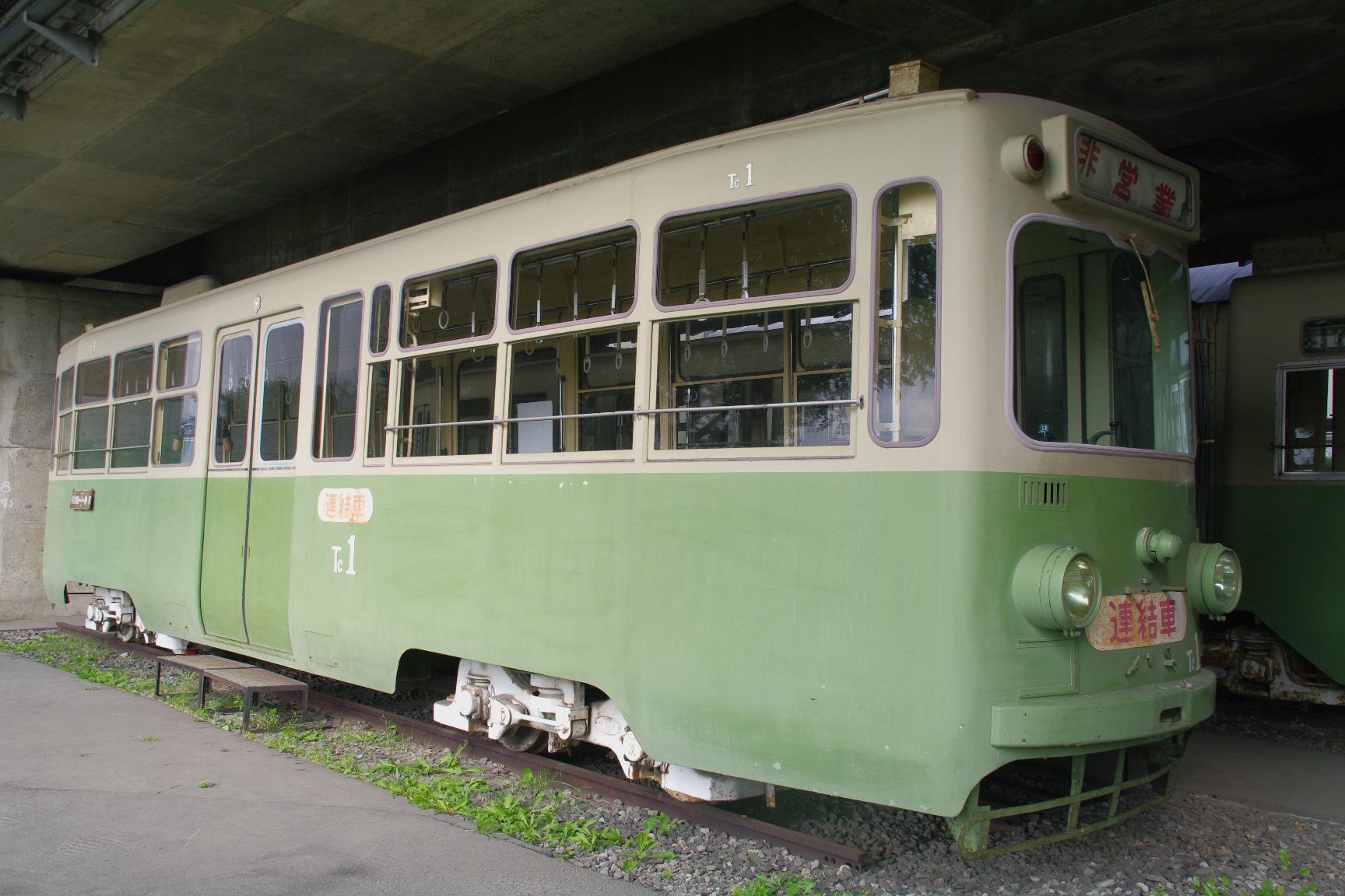 Sapporo streetcar type Tc1